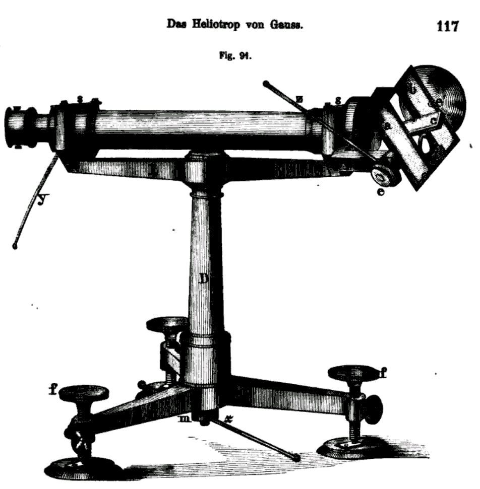 Diagram of heliotrope invented by Gauss.